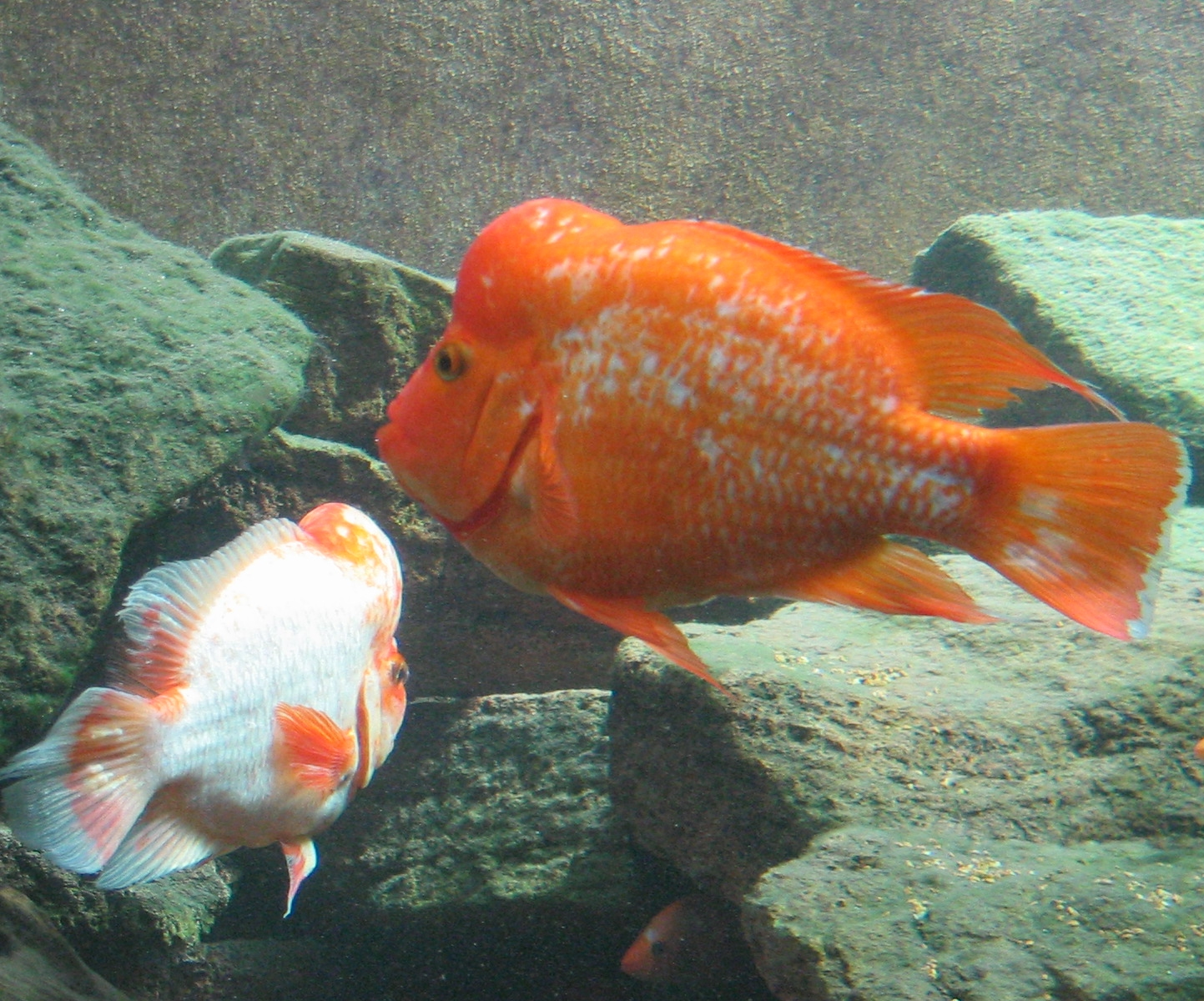 Two Midas Cichlids at the Shedd Aquarium, Chicago.